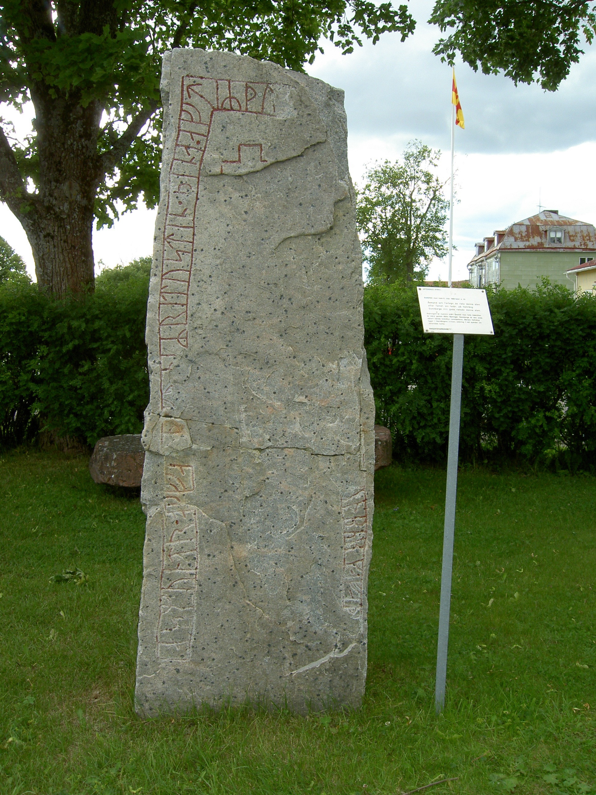 Runestone Hs 21 from Jättendals church. Text (from records) translates as, "Ásmundr and Farþegn, they erected this stone in memory of Þorketill of Vattrång, their father. Gunnborga the good coloured this stone."